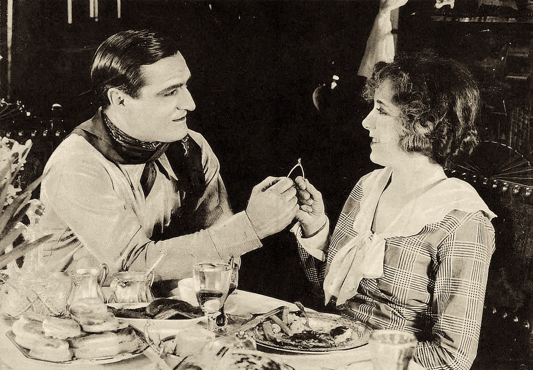 Tom Mix and Francelia Billington in Desert Love (1920) - publicity still